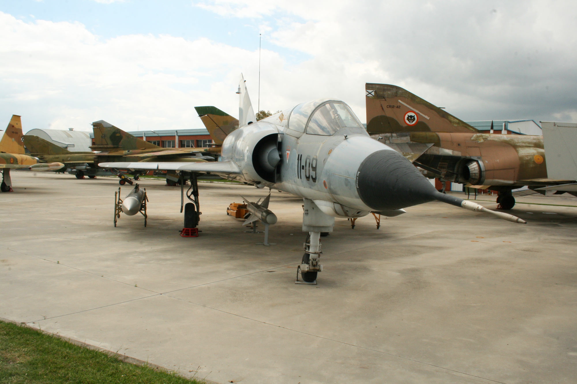 Caza Dassault Mirage IIIEE (C.11-09 / 11-09). Procedente del Ala 11 del Ejército del Aire español, con base en Manises (Valencia). Museo del Aire de Cuatro Vientos (Madrid, España). Mirage IIIEE Fighter aircraft Dassault Mirage IIIEE (C.11-09 / 11-09). From the 11th Wing of the Spanish Air Force, based in Manises (Valencia). Museum of the Air of Cuatro Vientos (Madrid, Spain).